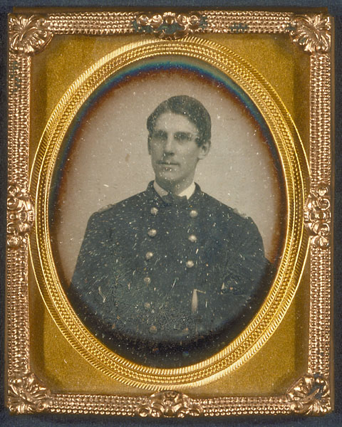 Daguerreotype portrait of Oliver Wendell Holmes, Jr., by Oliver Wendell Holmes Sr. Image courtesy of the Harvard University Library.